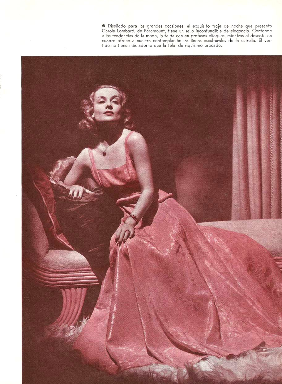 Publicity photo of Carole Lombard for Argentinean Magazine. (Printed in USA)